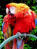 RGB 24bits palette sample image